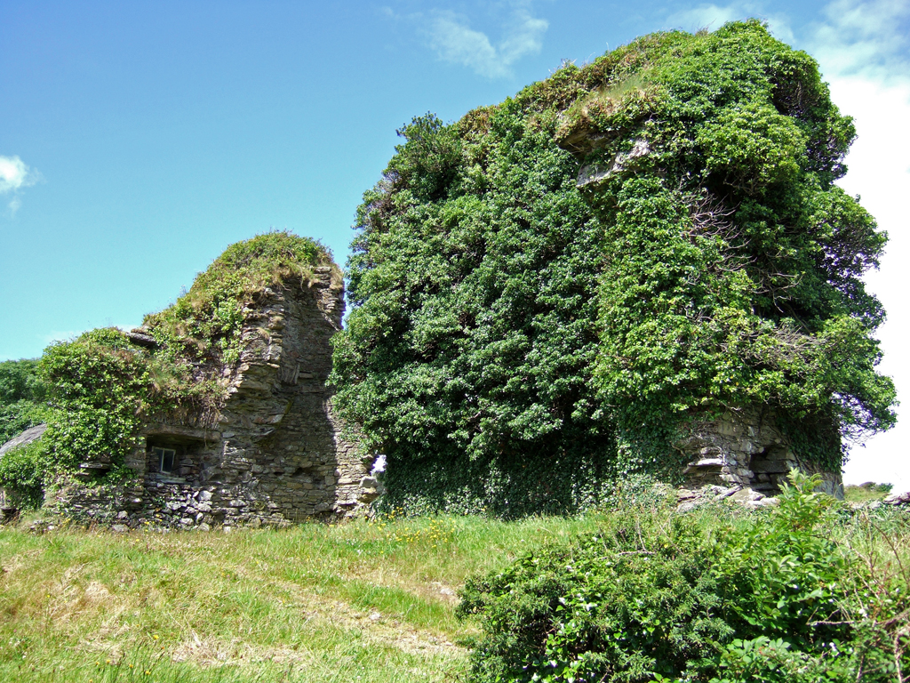 Rossmore Castle